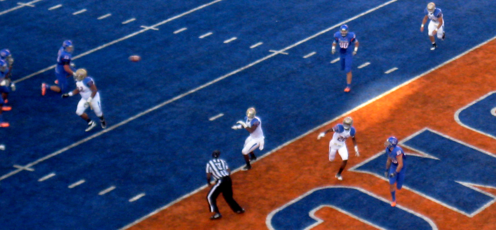 Boise State wide receiver Tyler Shoemaker about to catch one of his two touchdowns vs Tulsa on September 24, 2011 at Bronco Stadium in Boise, Idaho.